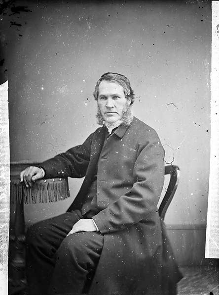 1 negative : glass, wet collodion, b&w ; 11 x 8.5 cm.